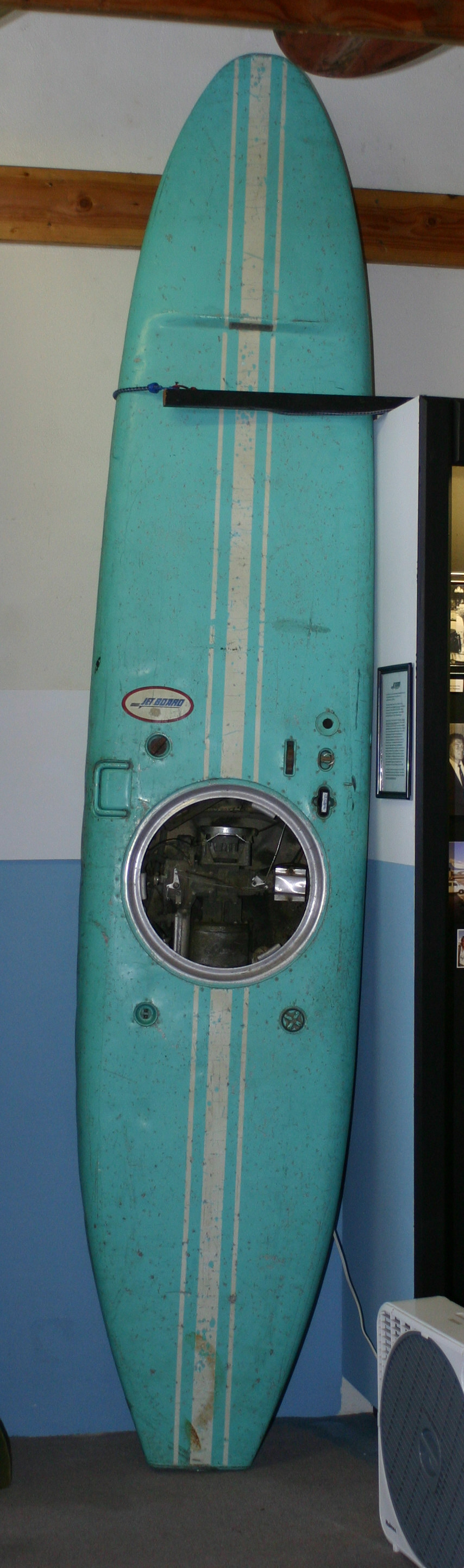 Picture of a Jetboard